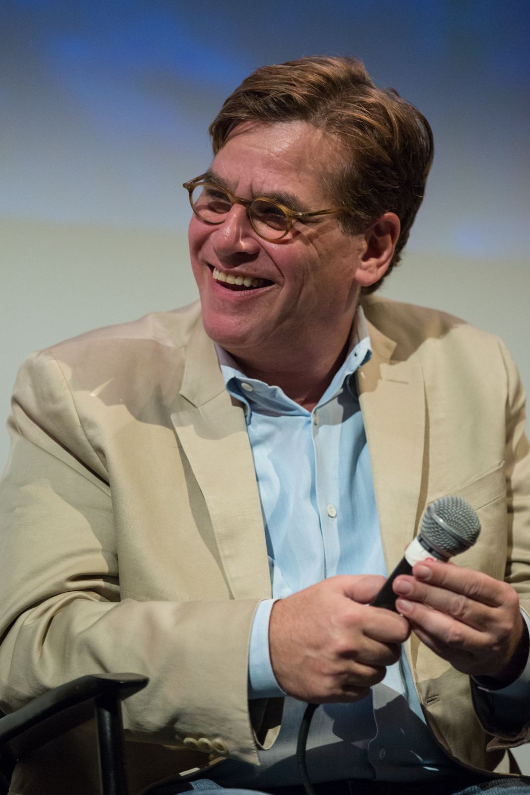 ATX Television Festival: Season 5 (2016)